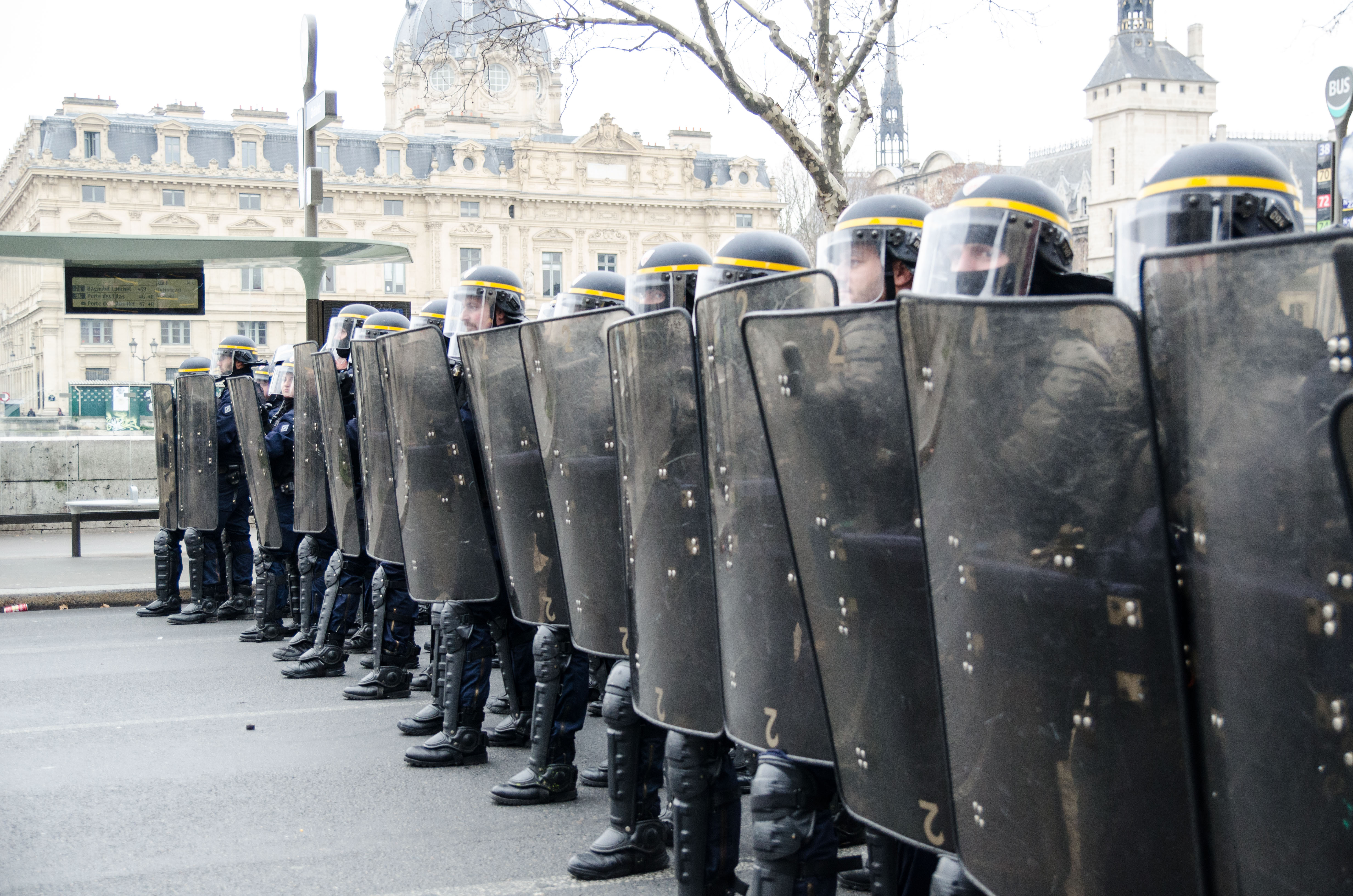 Mouvement des gilets jaunes, Paris, 05 Jan 2019